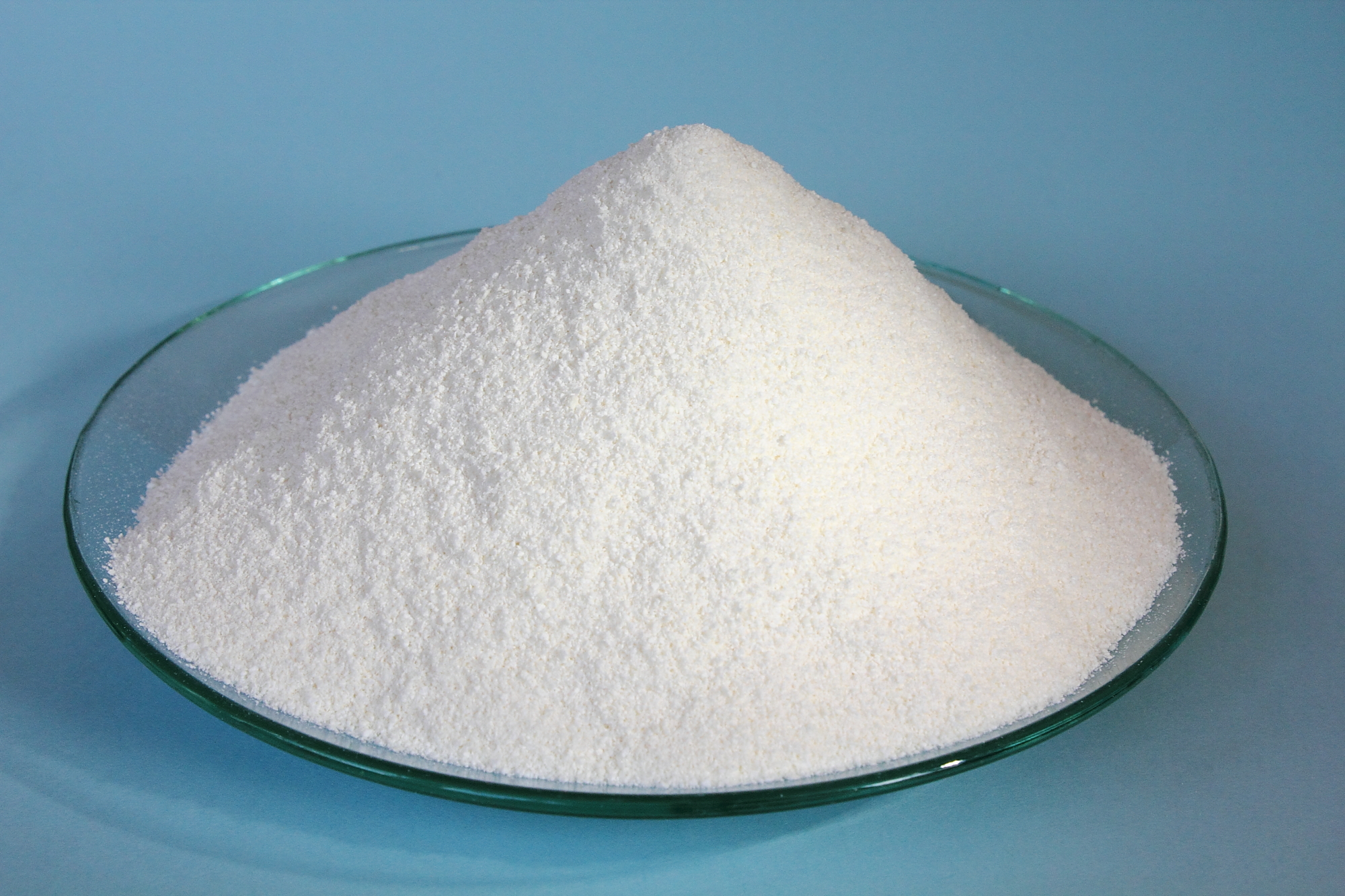 Supply form (powder) of chlorinated rubber. Type: Pergut(R) S 170 from Bayer MaterialScience